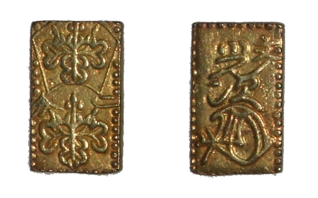 Shinbun-2buban